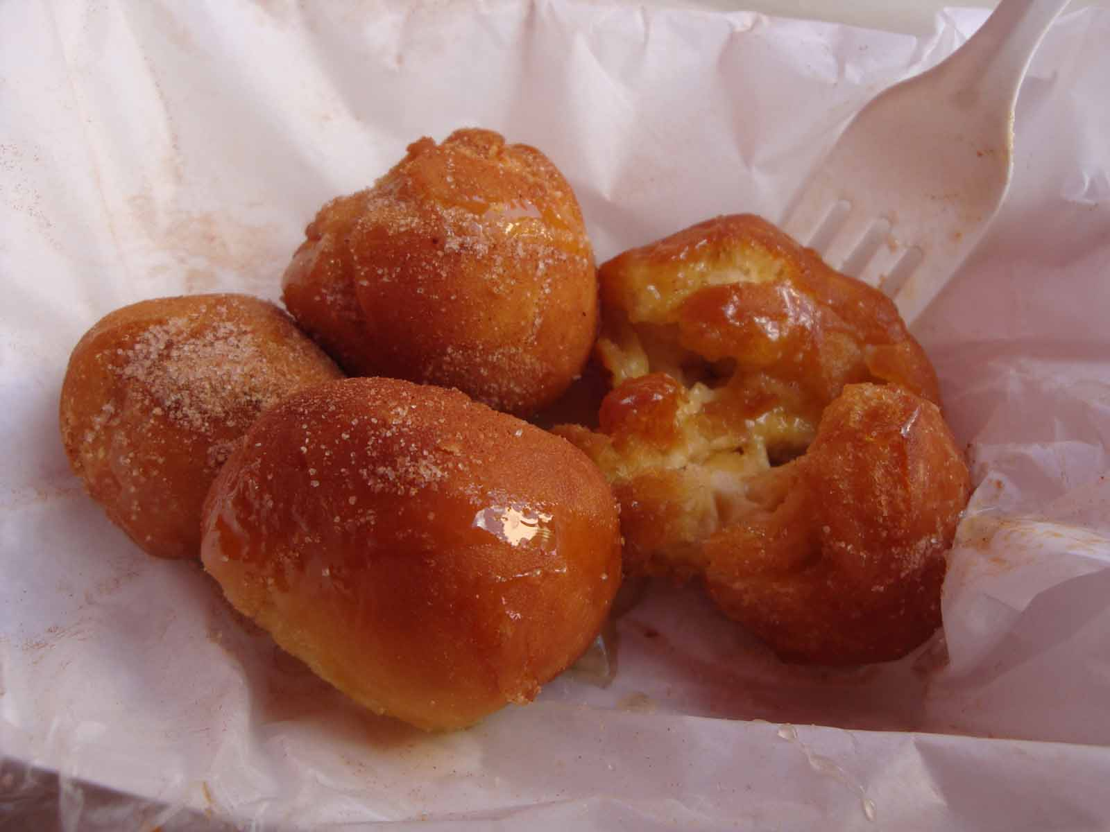 Deep-fried butter at State Fair of Texas, 2009 Original description: This was WAY better than I thought it would be. Think a fresh donut hole, covered in honey and cinnamon/sugar. With melted butter in the center. Oh yeah.